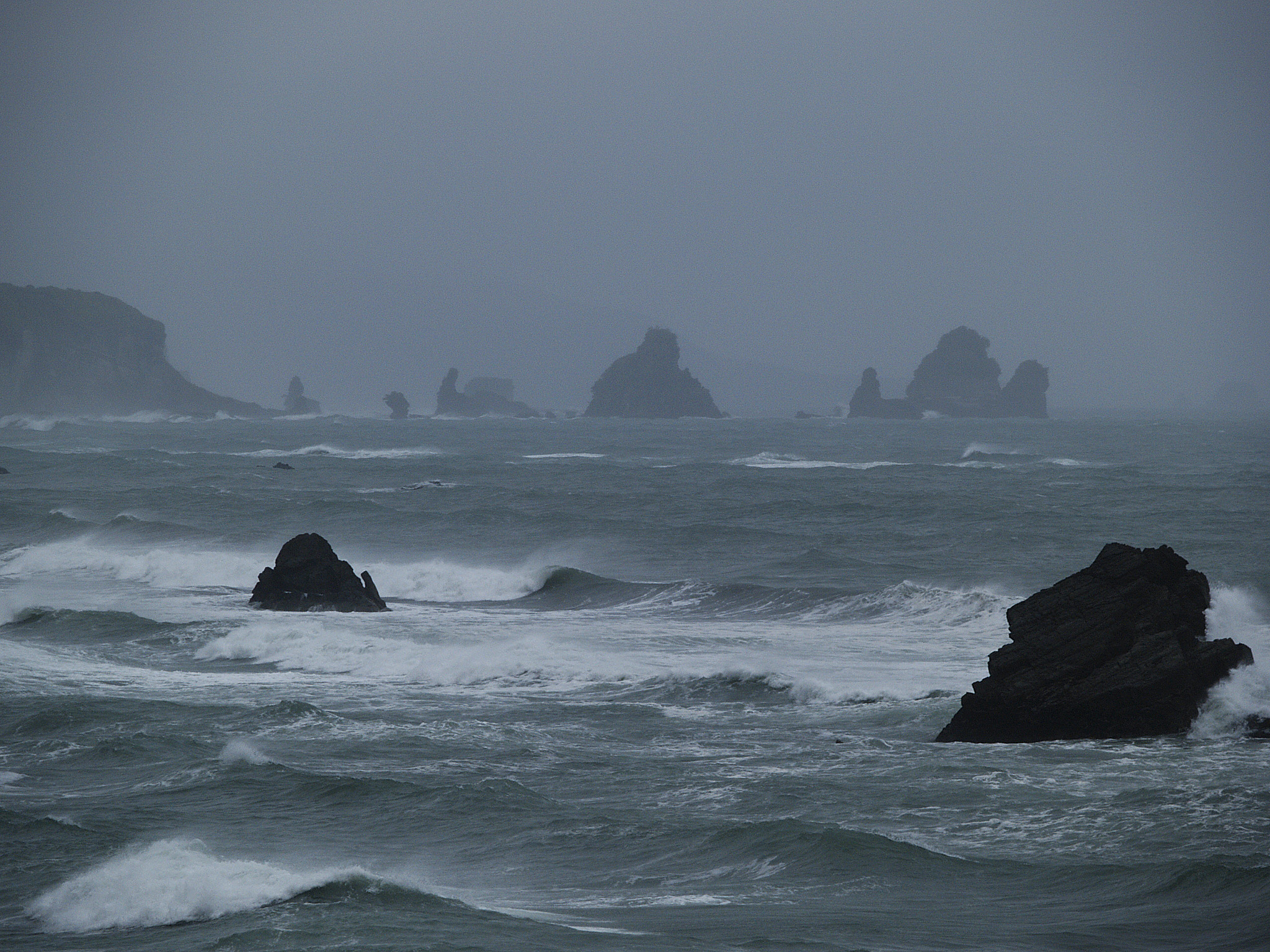 Sea at the West Coast, South Island, New Zealand, 15 km north of Greymouth